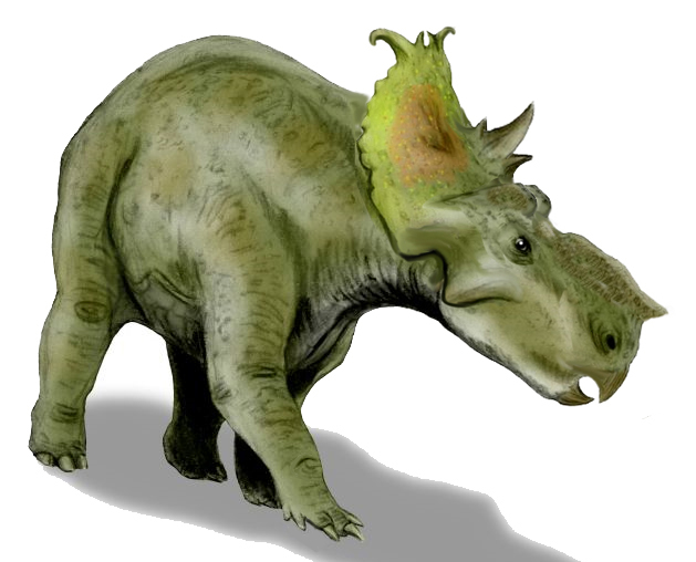 Pachyrhinosaurus lakustai, a ceratopsian from the Late Cretaceous of North America, pencil drawing, digital coloring